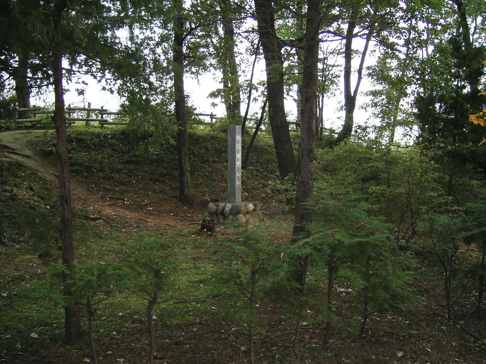 The Honmaru's trace of Hachigata-Jou(Castle) in Yorii-Machi,Saitama pref.,Japan 鉢形城本丸跡（埼玉県寄居町）